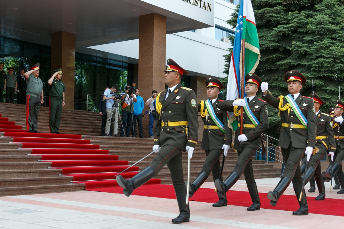 Visit of the Minister of Defense of the Russian Federation in Uzbekistan.